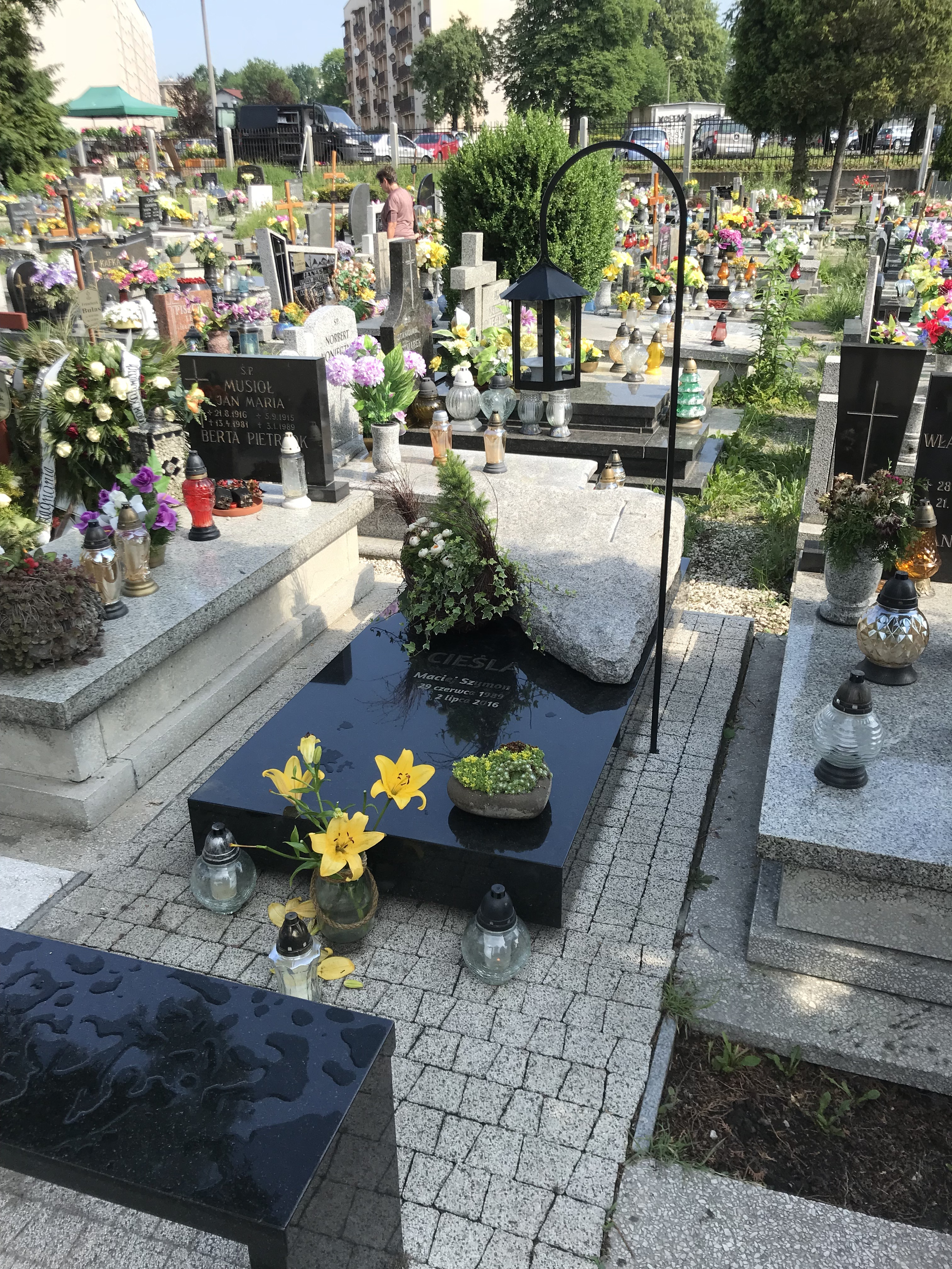 Tomb of Maciej Cieśla 1989-2016 art designer; cemetery on Józefowska Street in Katowice